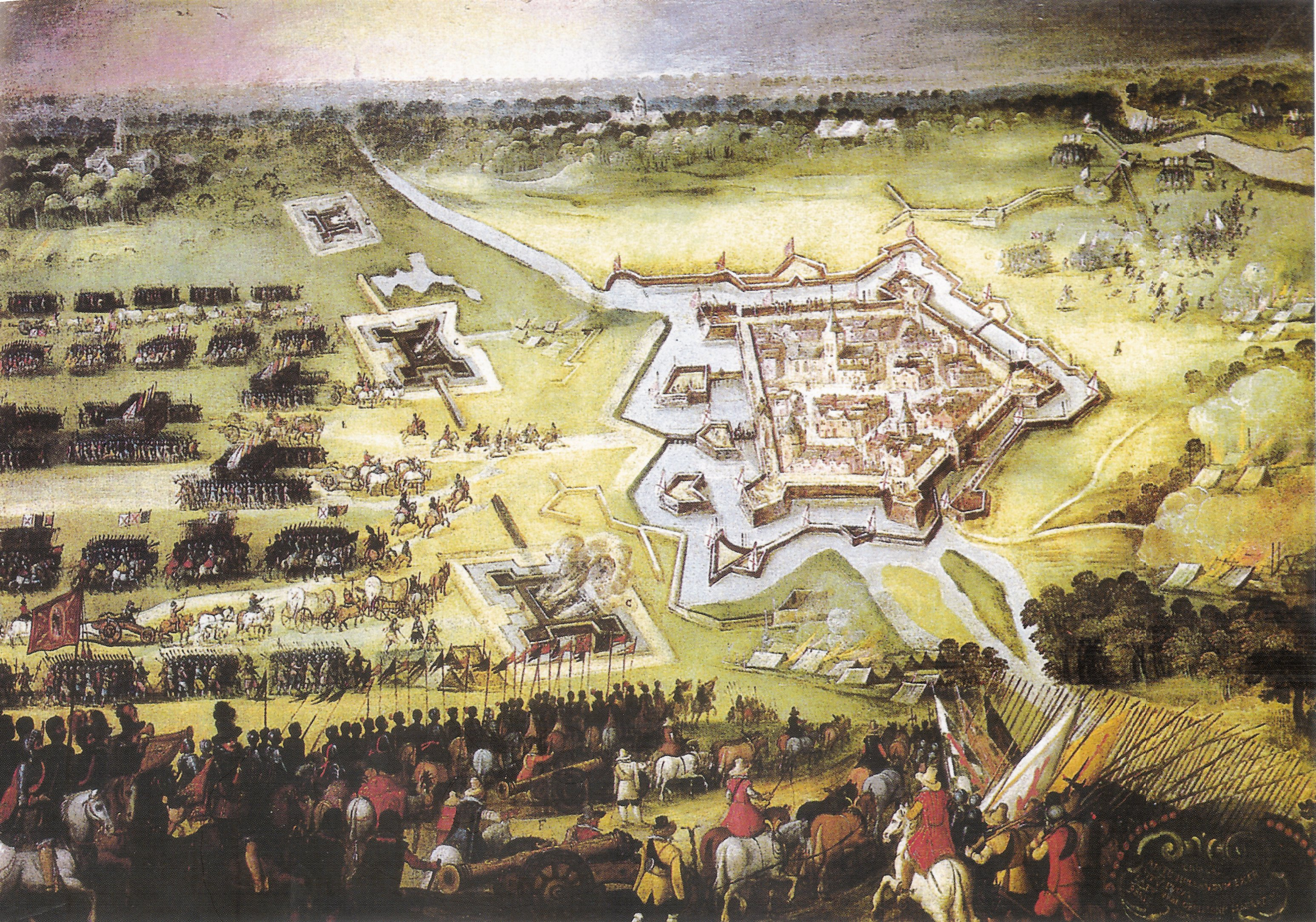 The Siege of Spanish controlled Groenlo (Grol) by Maurice of Orange broken by Spinola on November 9th 1606label QS:Len,"The Siege of Spanish controlled Groenlo (Grol) by Maurice of Orange broken by Spinola on November 9th 1606" label QS:Lnl,"Het beleg van Spaans Groenlo (Grol) onder leiding van Prins Maurits wordt door Spinola gebroken op 9 november 1606."